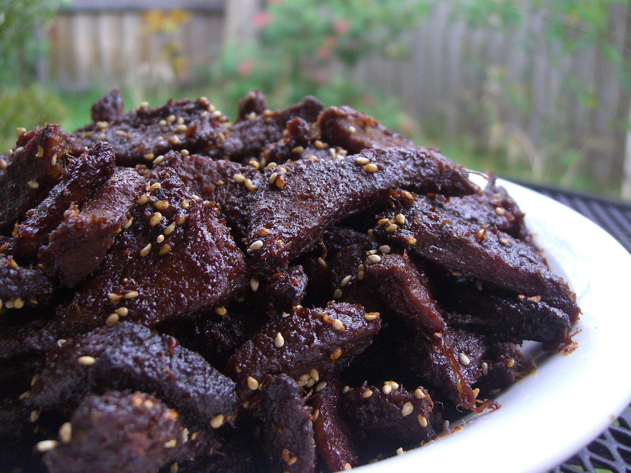 Julia used grass-fed topside roast to make beef jerky. It tasted great, but the jerky was quite dry, perhaps because grass-fed beef is too lean. recipe